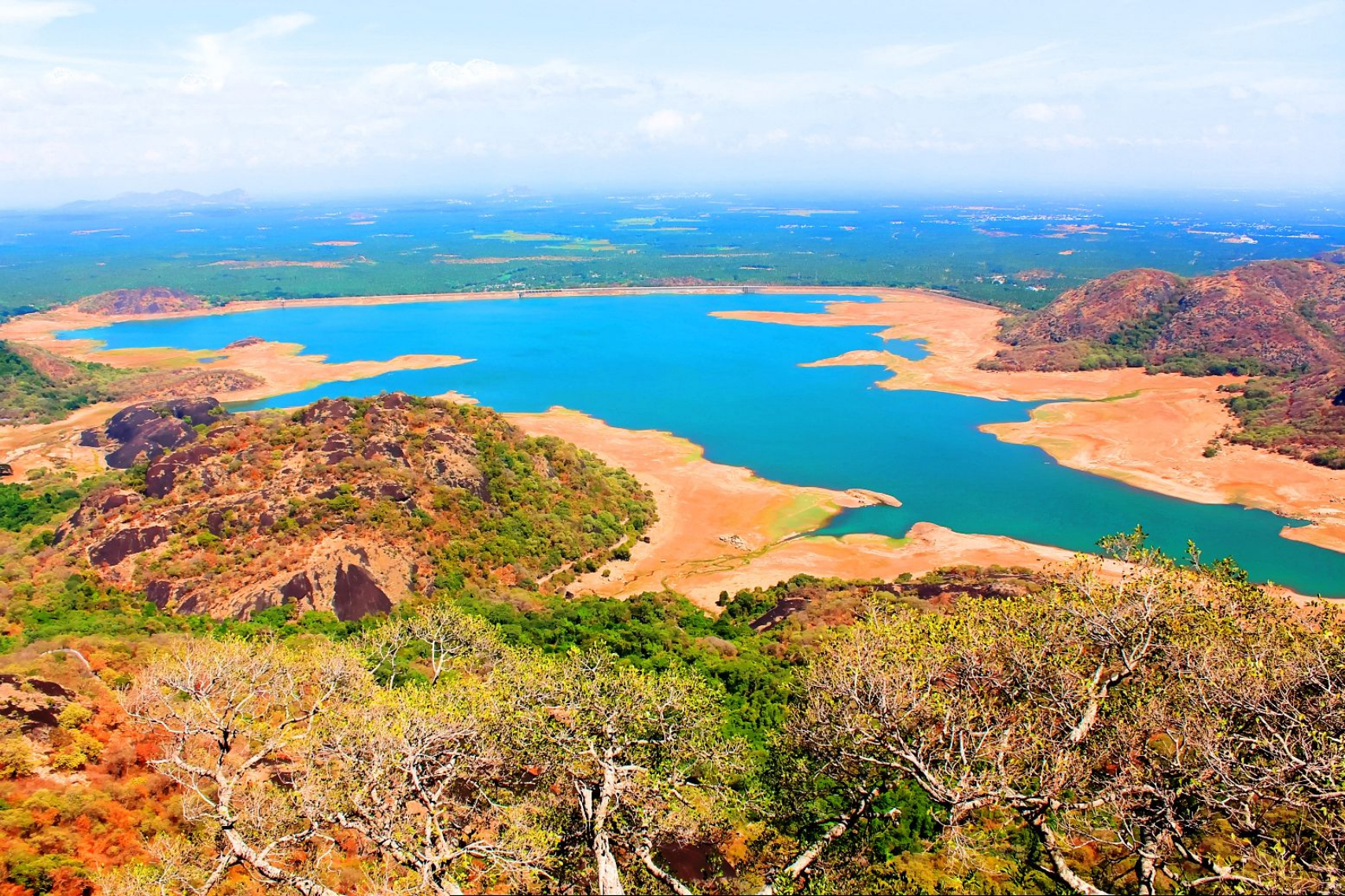 Aaliyar Dam, enroute to Valparai, Tamil Nadu